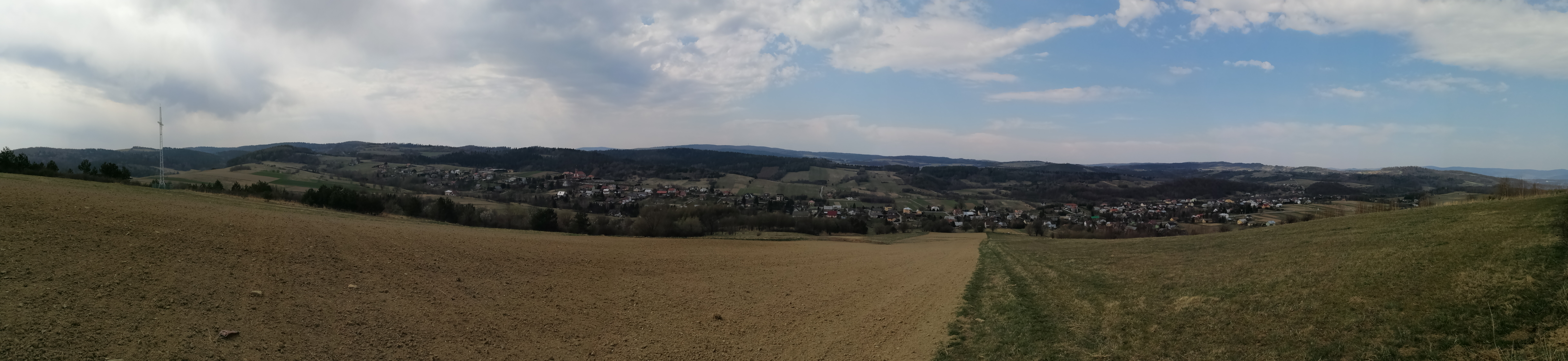 View of the Czaszyn